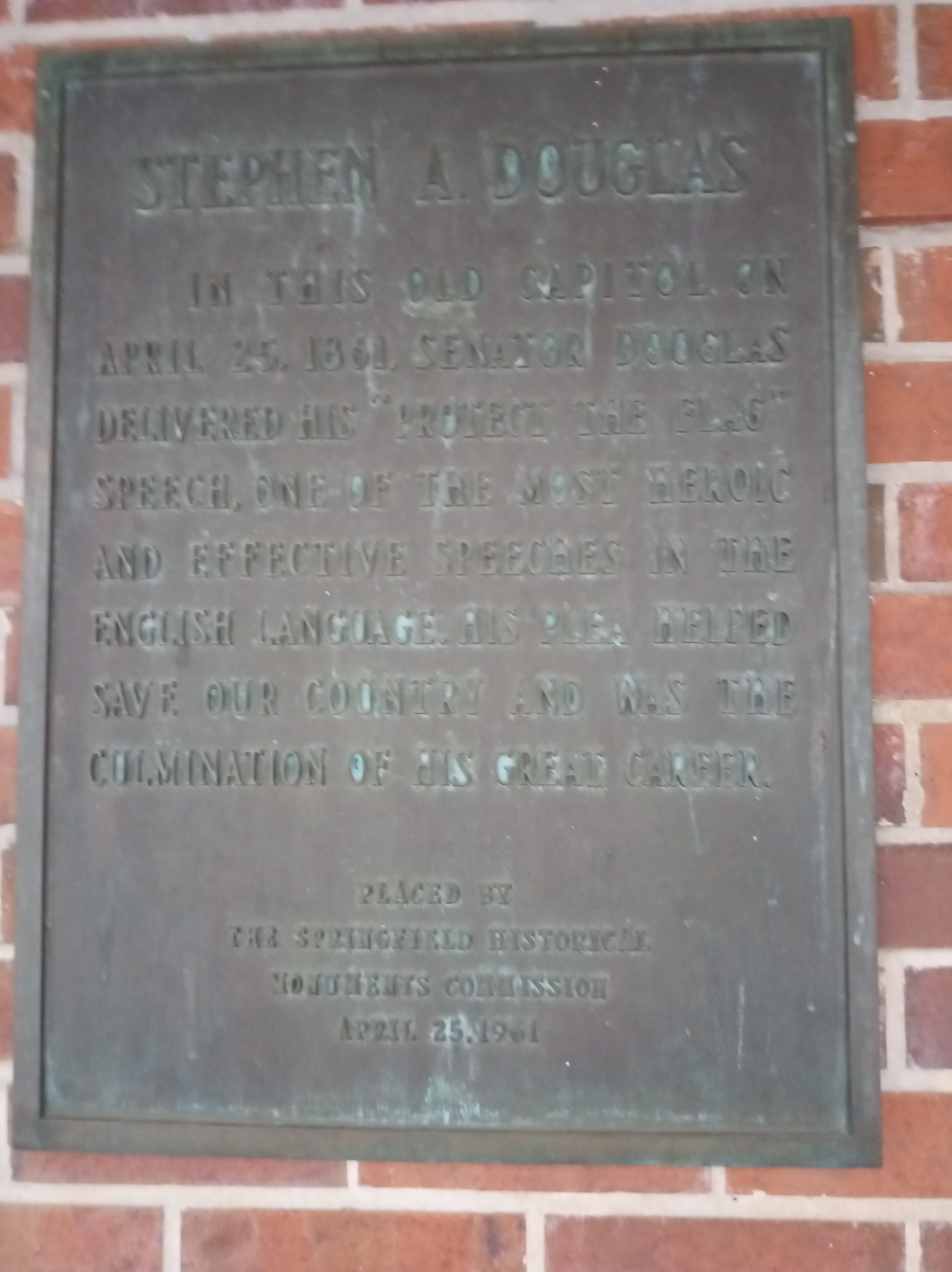 Plaque placed on the plaques building at the Old State Capitol in downtown Springfield, Illinois, commemorating the "Protect The Flag" speech given there by Stephen A. Douglas on April 25, 1861. Plaque is dated 1961.